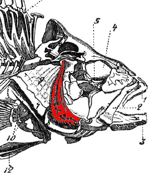 head sceleton of a brass with the preopercle marked in red